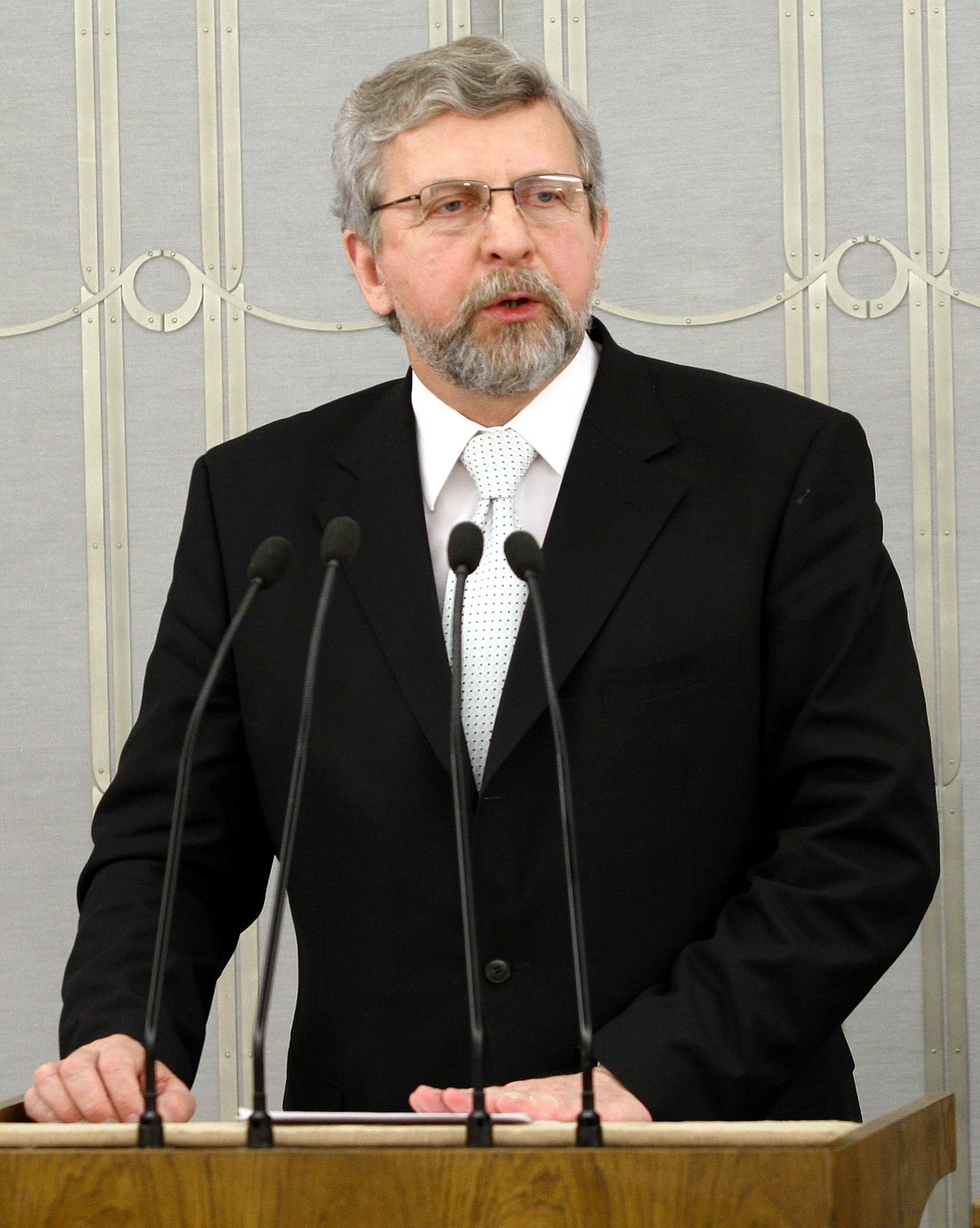 Alexander Milinkevich during joint parliamentary assembly of deputies and senators commemorating the Constitution of May 3, 1791, in the Polish Senate